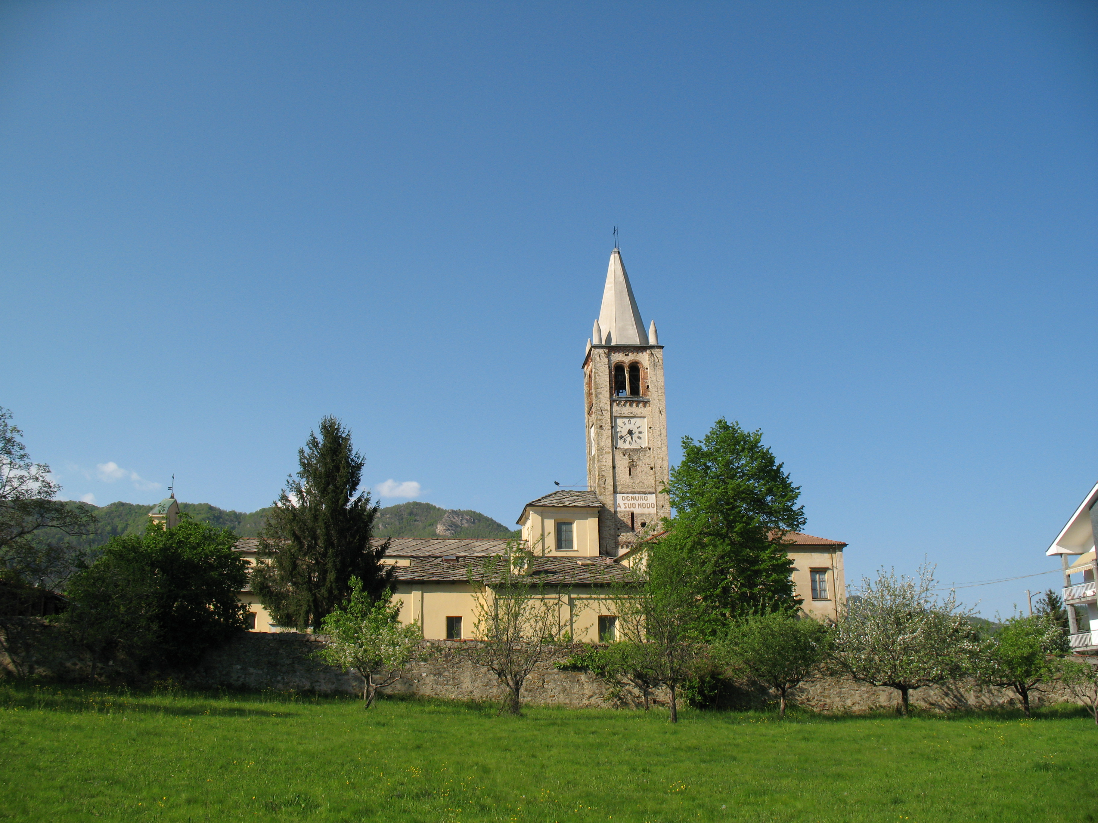 Coazze